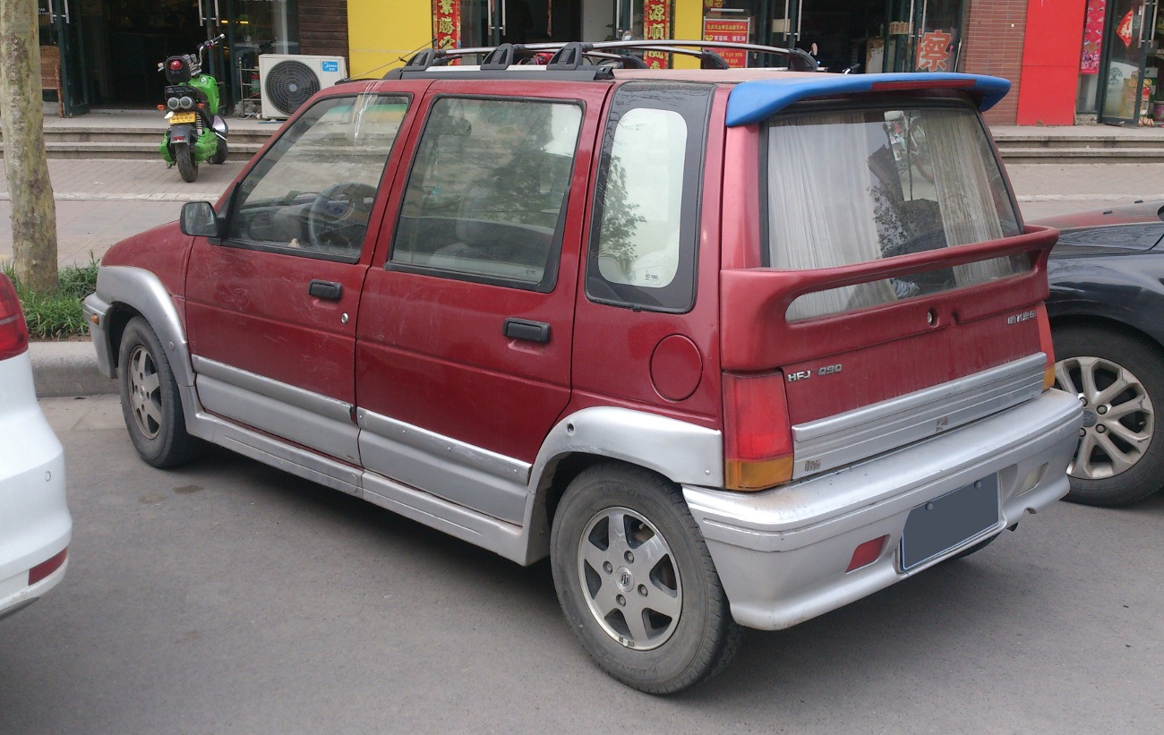 Hafei Baili HJF7090 photographed in Zhengzhou, Henan province, China.